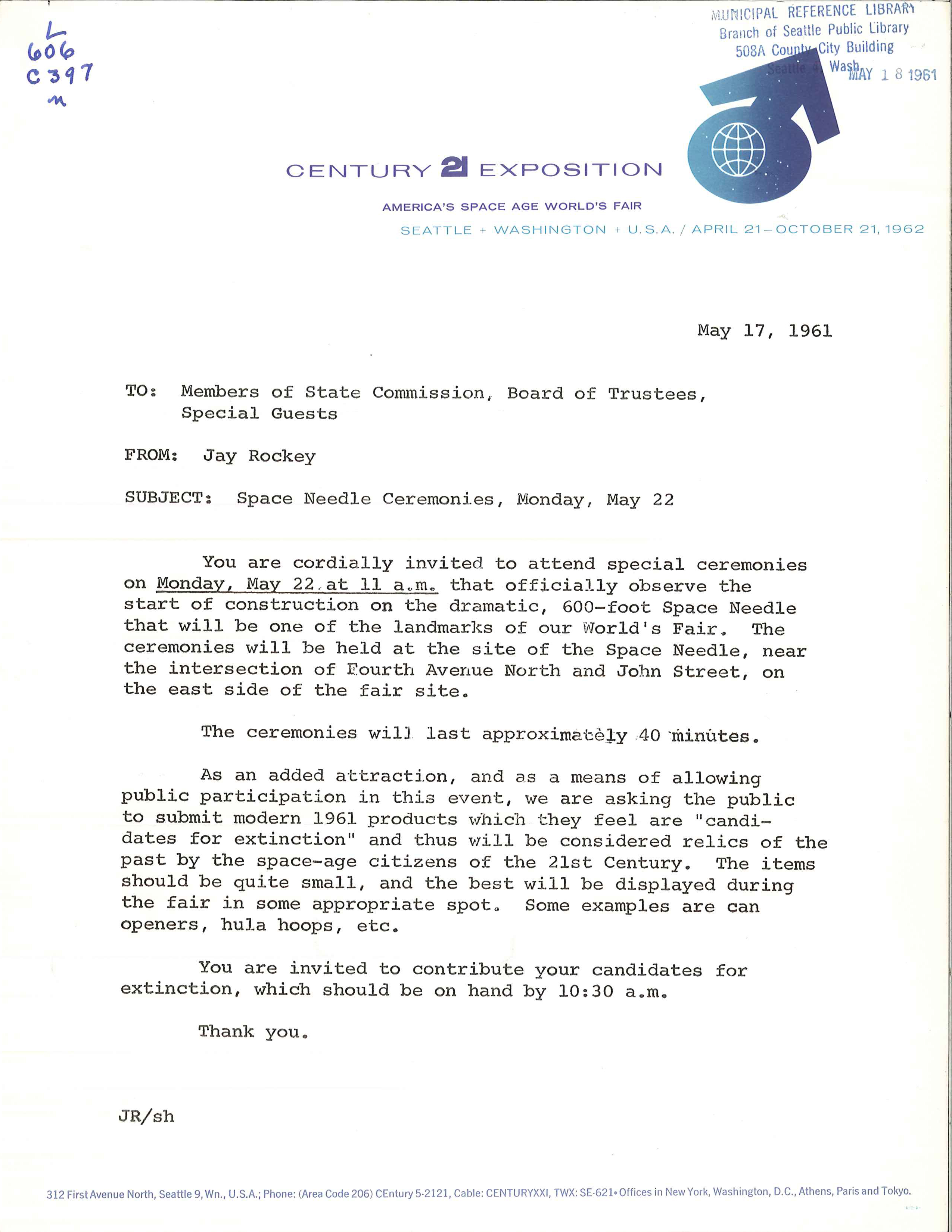 Invitation to Space Needle groundbreaking, 1961. Found in folder "Ceremony Invitations," Civic Center Advisory and World’s Fair Commissions Records (Record Series 9315-01), Seattle Municipal Archives.